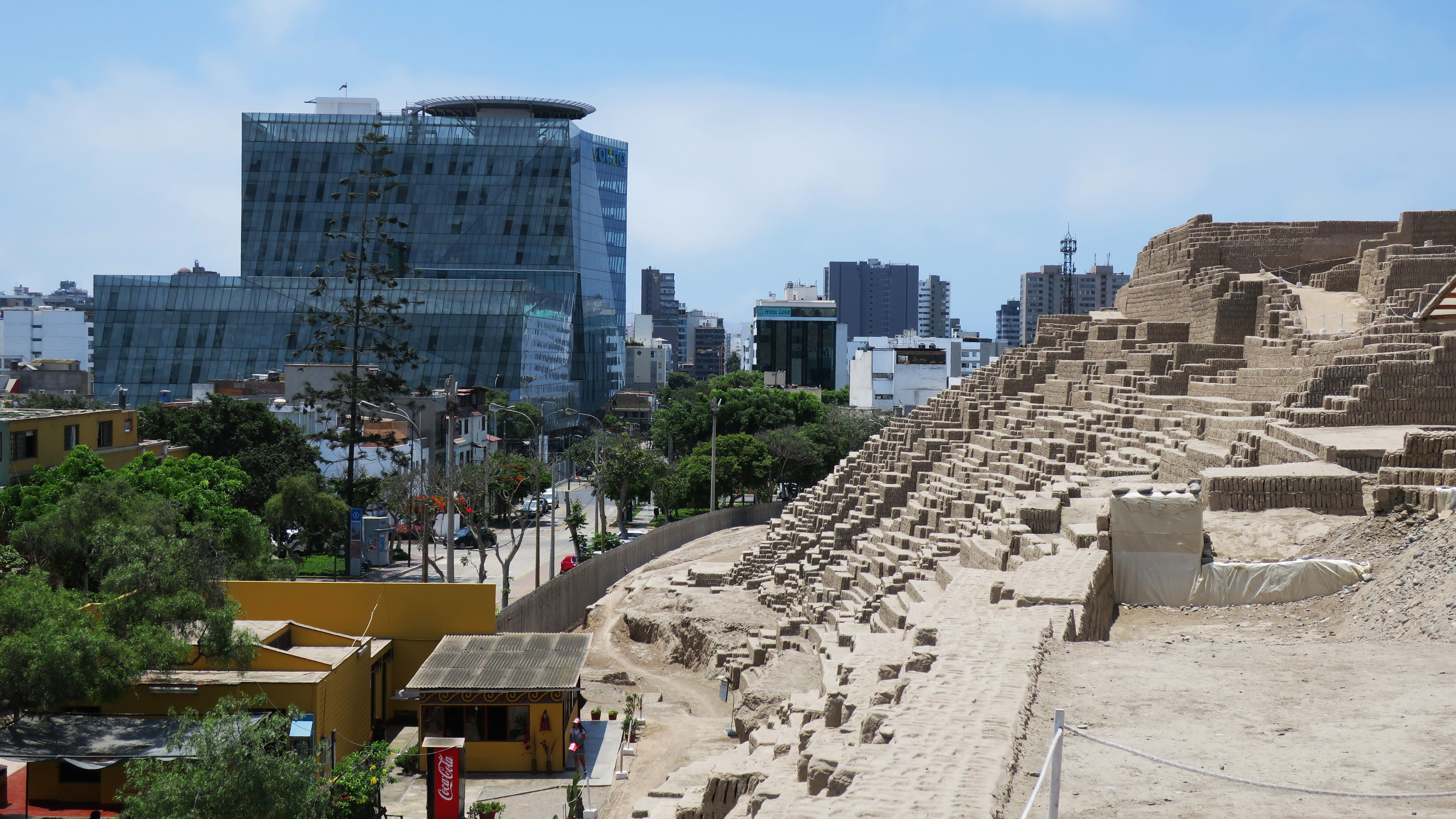 Miraflores District, Central Lima, Peru